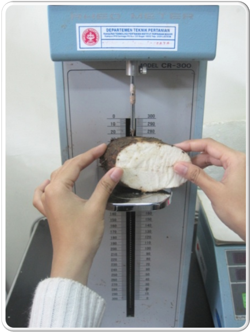 Xanthosoma sagittifolium during rheology testing, in Bogor Agricultural University